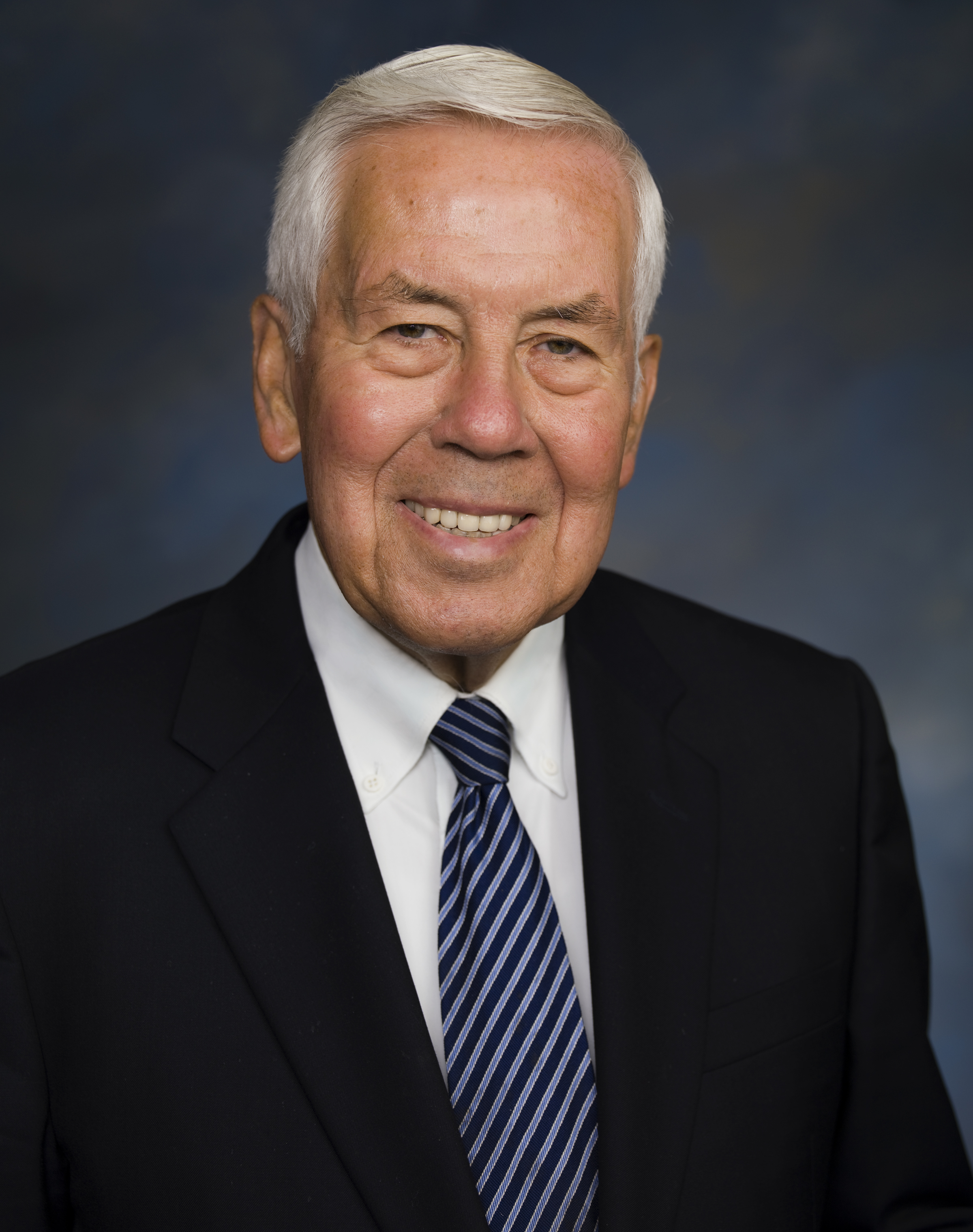 Official photo of Senator Dick Lugar (R-IN).